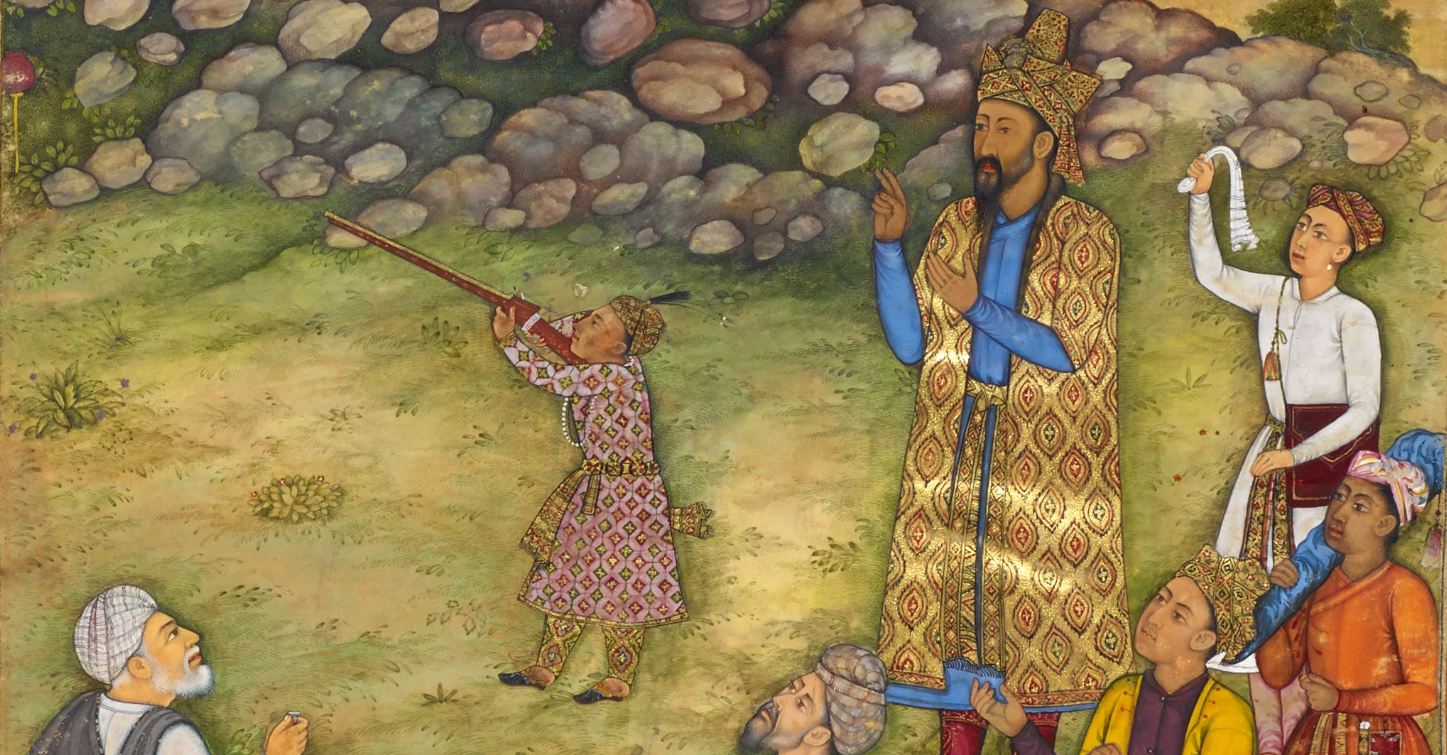 Humayun teaches young Akbar to shoot, detail, Akbarnama, 1602-4, British Library